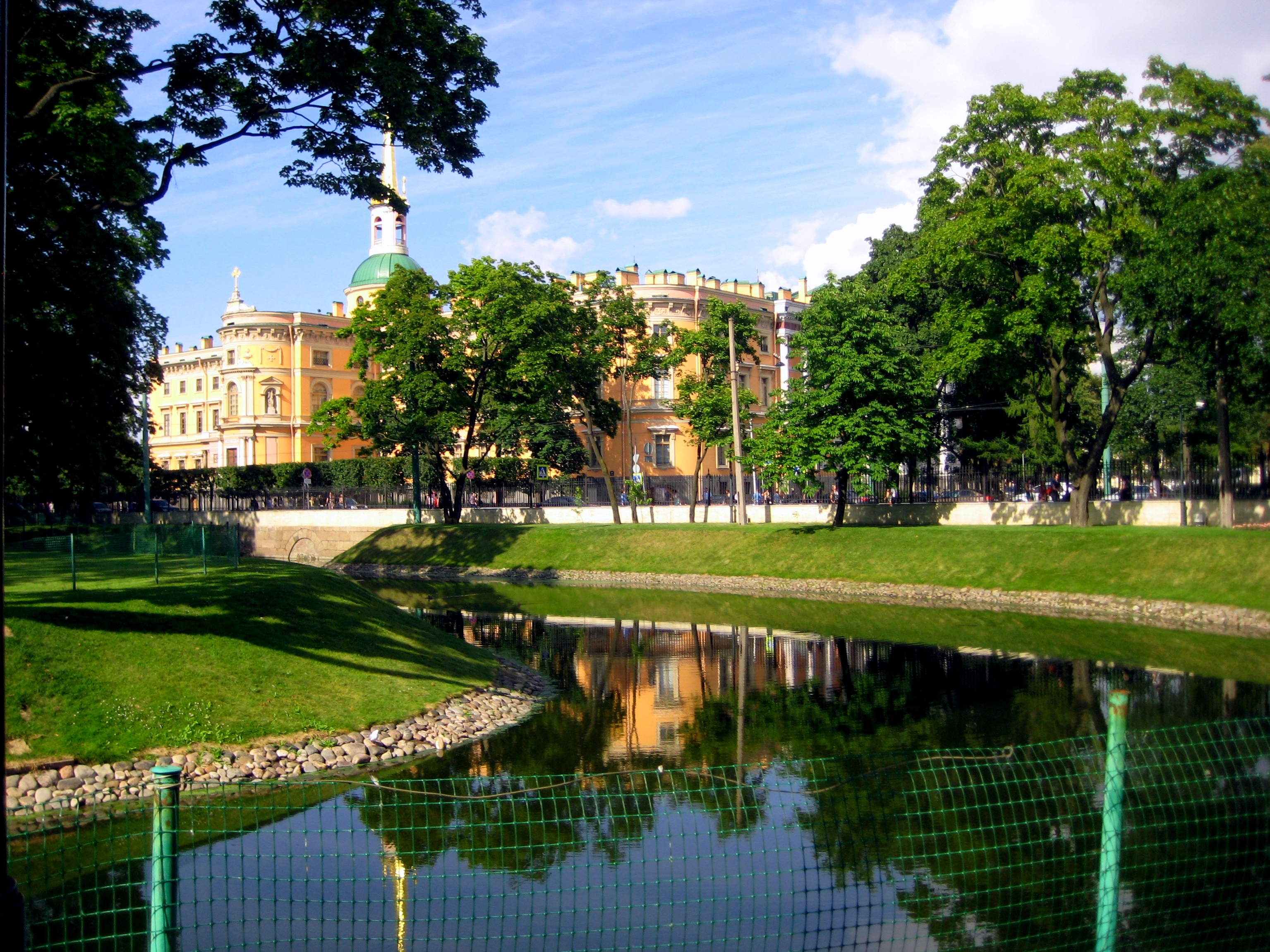 Mikhailovsky garden with a pond: Sadovaya street, Moika river Embankment, Griboyedov canal Embankment, Tsentralny district, St. Petersburg